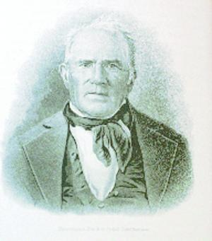 Benjamin Jones (1787-1862), Ohio congressman.